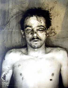 A photo of Jules Bonnet dead. Bonnet was an important anarchist thief in the first decade of the twentieth century.